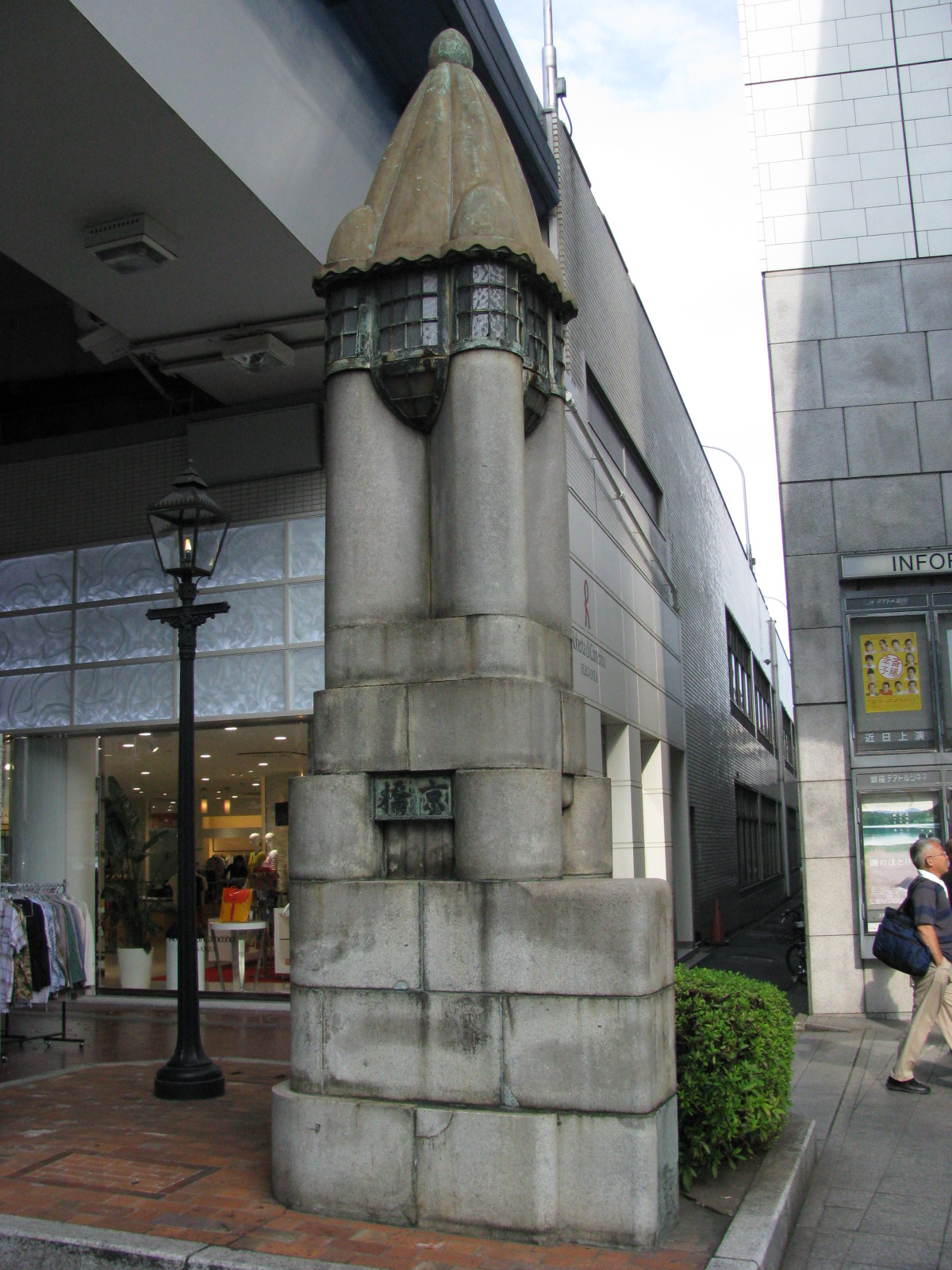 This is the Newel post of The Kyo-bashi (Kyo bridge). It was built in 1922. But Kyobashi was dismantled already. The Kyobashi is located in cyuo, Tokyo, japan.